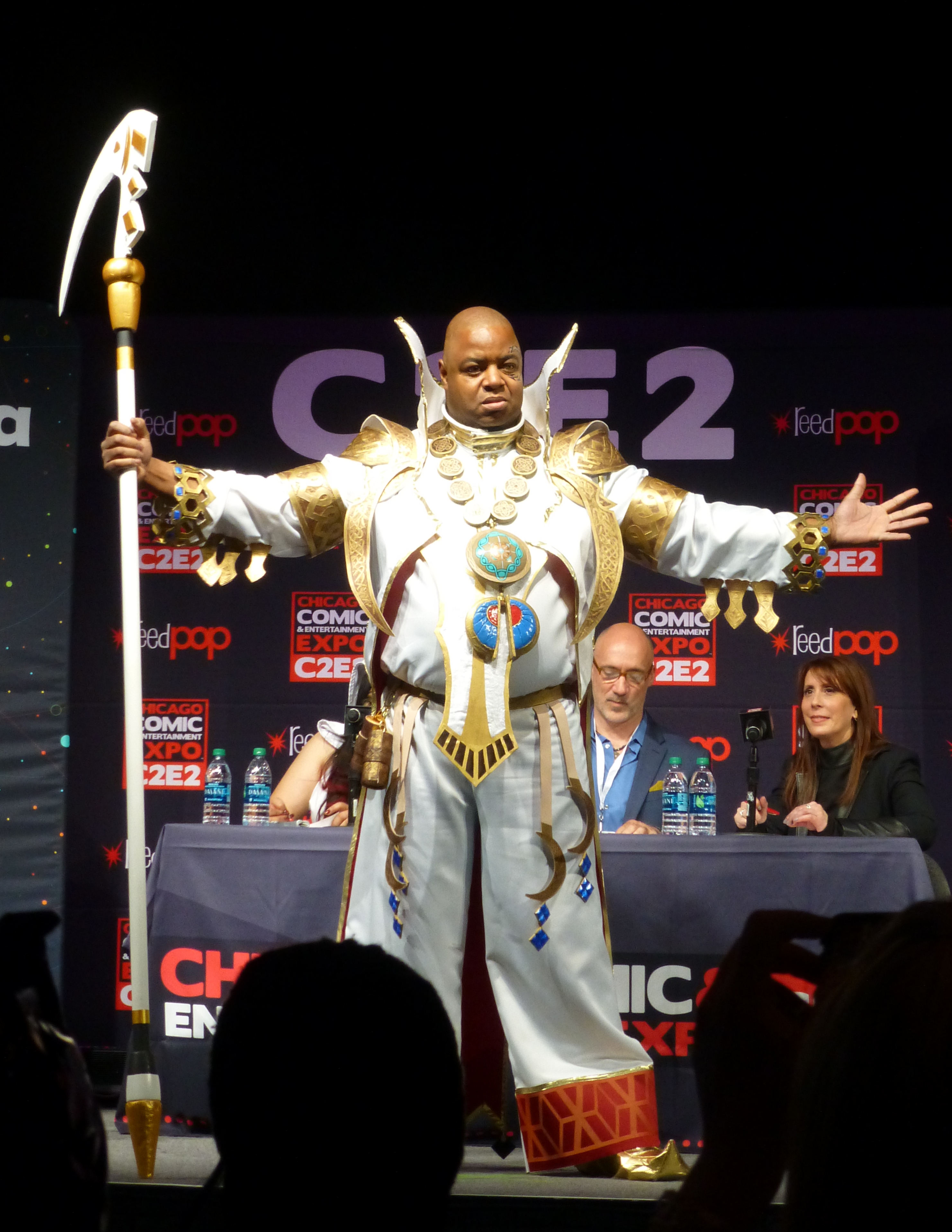 Cosplay Dad-Zasalamel (Soulcalibur) Cosplay at Chicago Comic & Entertainment Expo (C2E2) 2015.